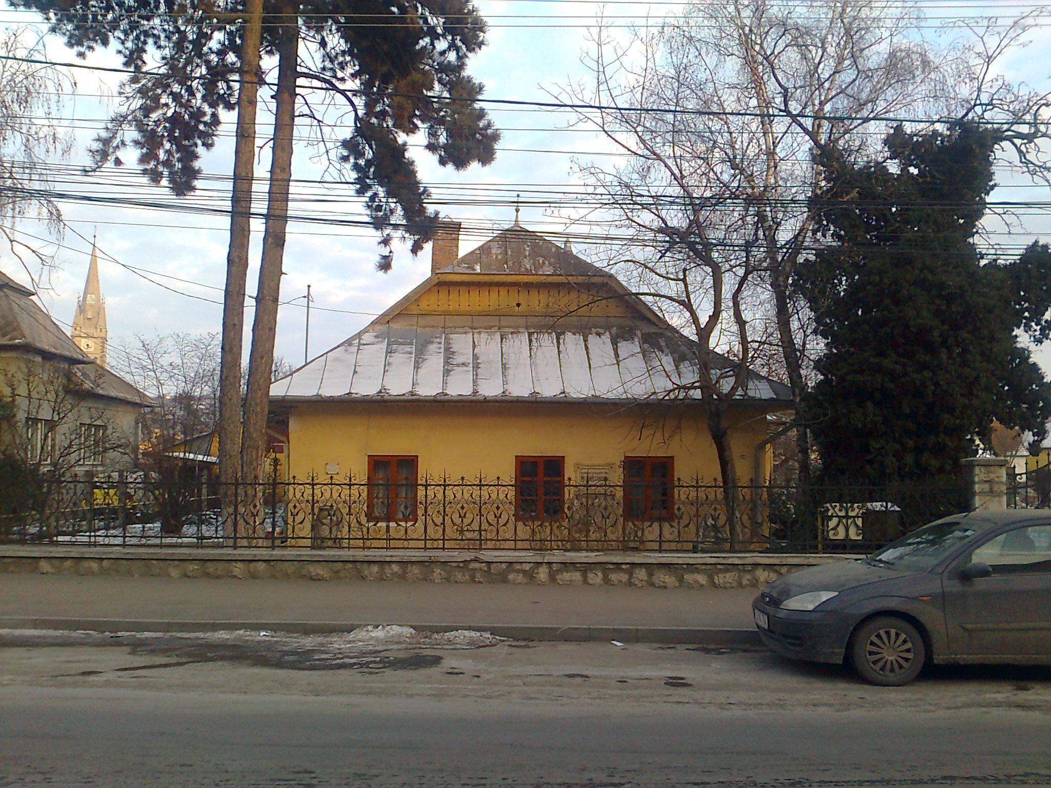 Reformed parsonage in Turda (Romania)